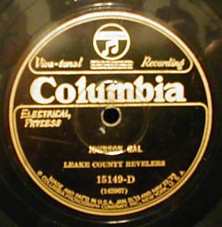 Johnson Gal by the Leake County Revelers, Columbia 1927.